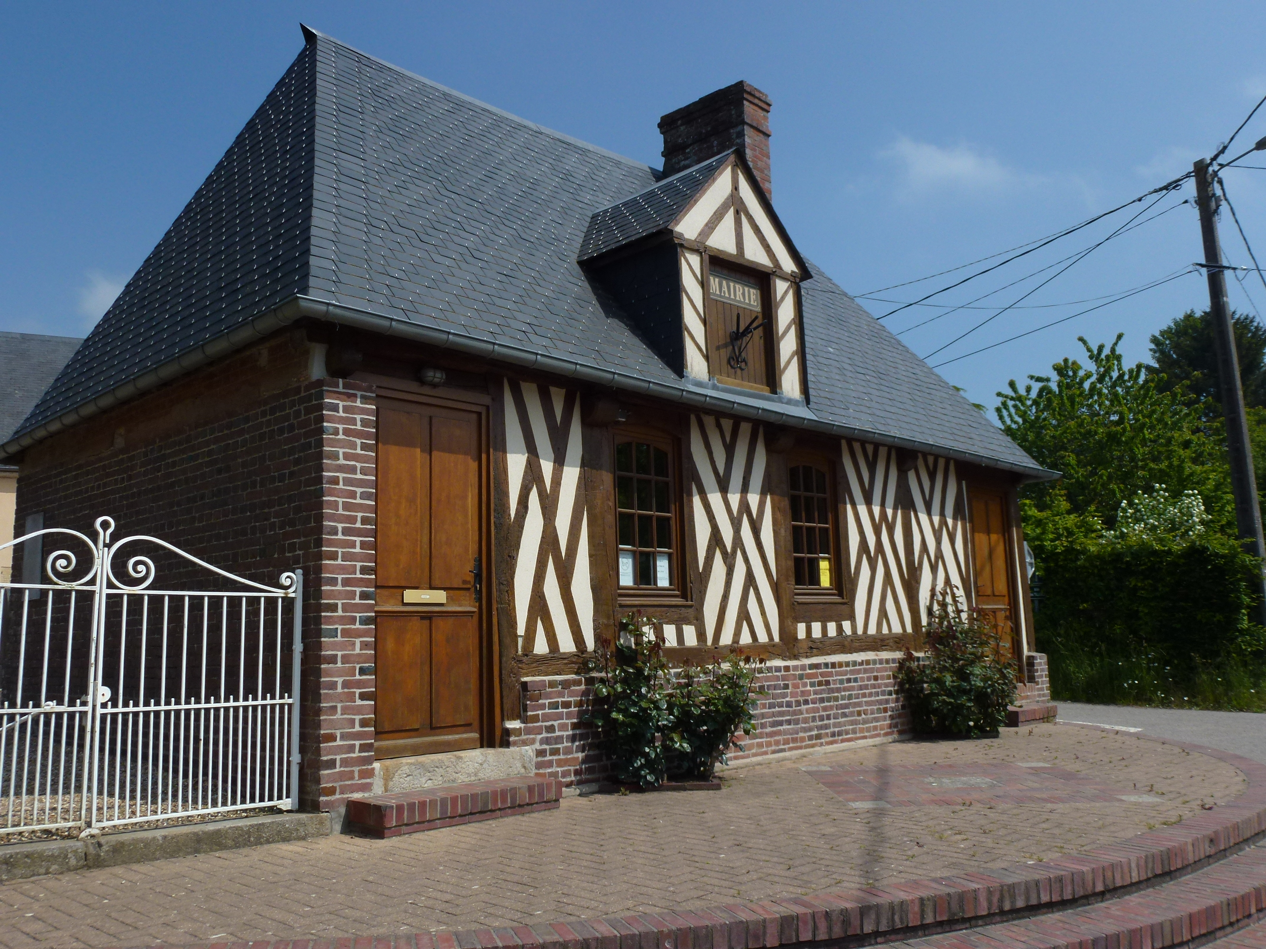 Folleville (Eure, Fr) mairie